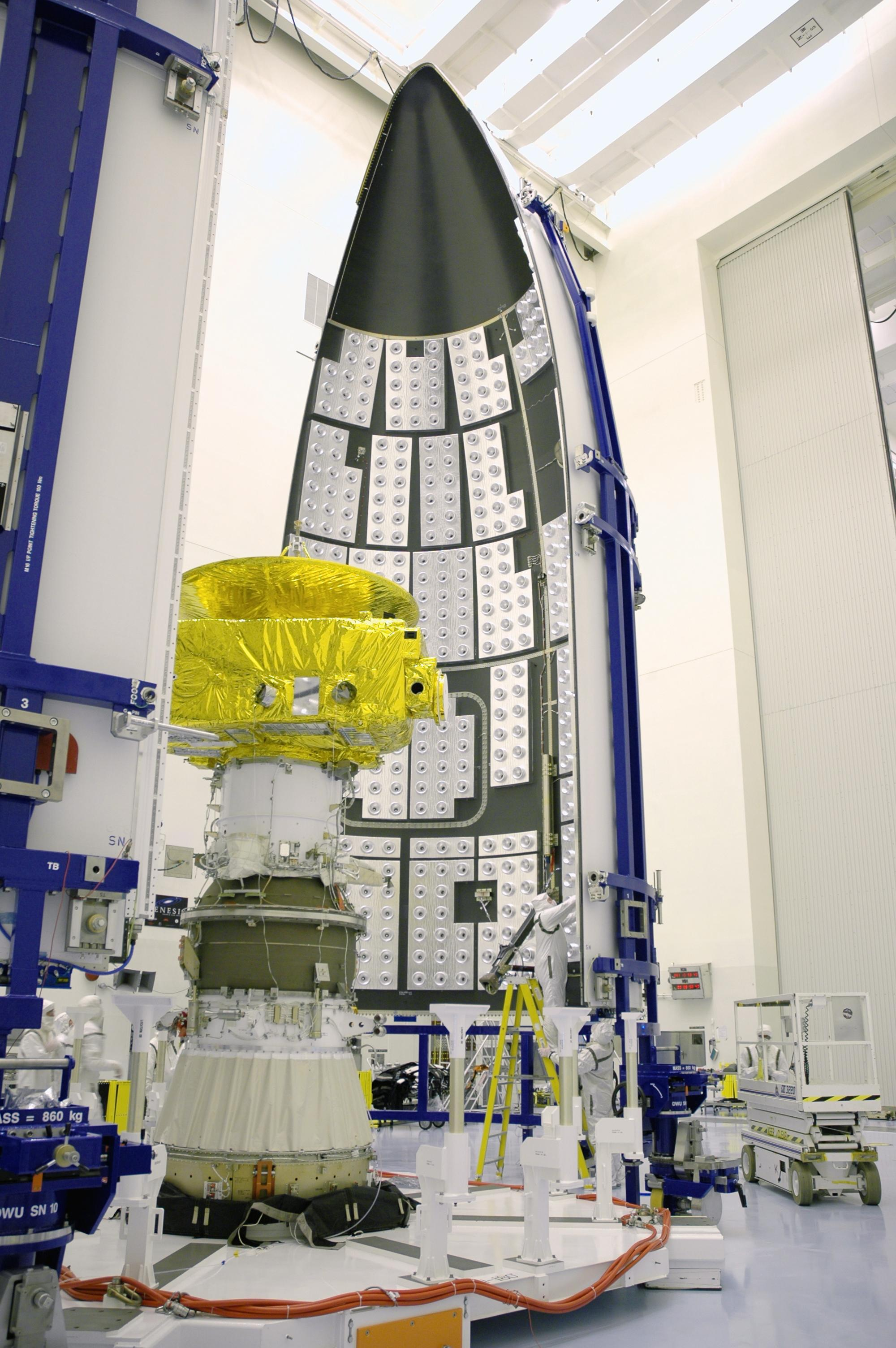 KENNEDY SPACE CENTER, FLA. – In the Payload Hazardous Servicing Facility, clean-suit garbed workers prepare the first fairing section (in the background) that will encapsulate the New Horizons spacecraft at left for flight. The fairing protects the spacecraft during launch and flight through the atmosphere. Once out of the atmosphere, the fairing is jettisoned. The compact 1,060-pound New Horizons probe carries seven scientific instruments that will characterize the global geology and geomorphology of Pluto and its moon Charon, map their surface compositions and temperatures, and examine Pluto's complex atmosphere. After that, flybys of Kuiper Belt objects from even farther in the solar system may be undertaken in an extended mission. New Horizons is the first mission in NASA's New Frontiers program of medium-class planetary missions. The spacecraft, designed for NASA by the Johns Hopkins University Applied Physics Laboratory in Laurel, Md., will fly by Pluto and Charon as early as summer 2015.